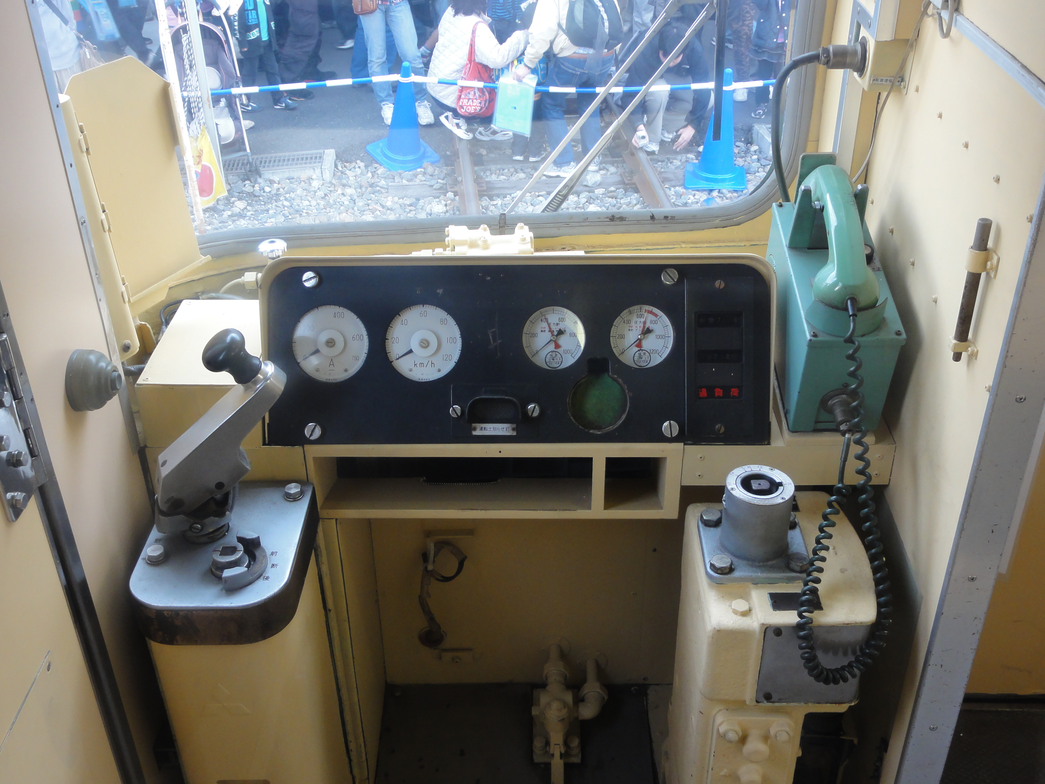 The cab of Teito-Rapid-Transit-Authority 3000 series train (Vehicle Number is 3001)